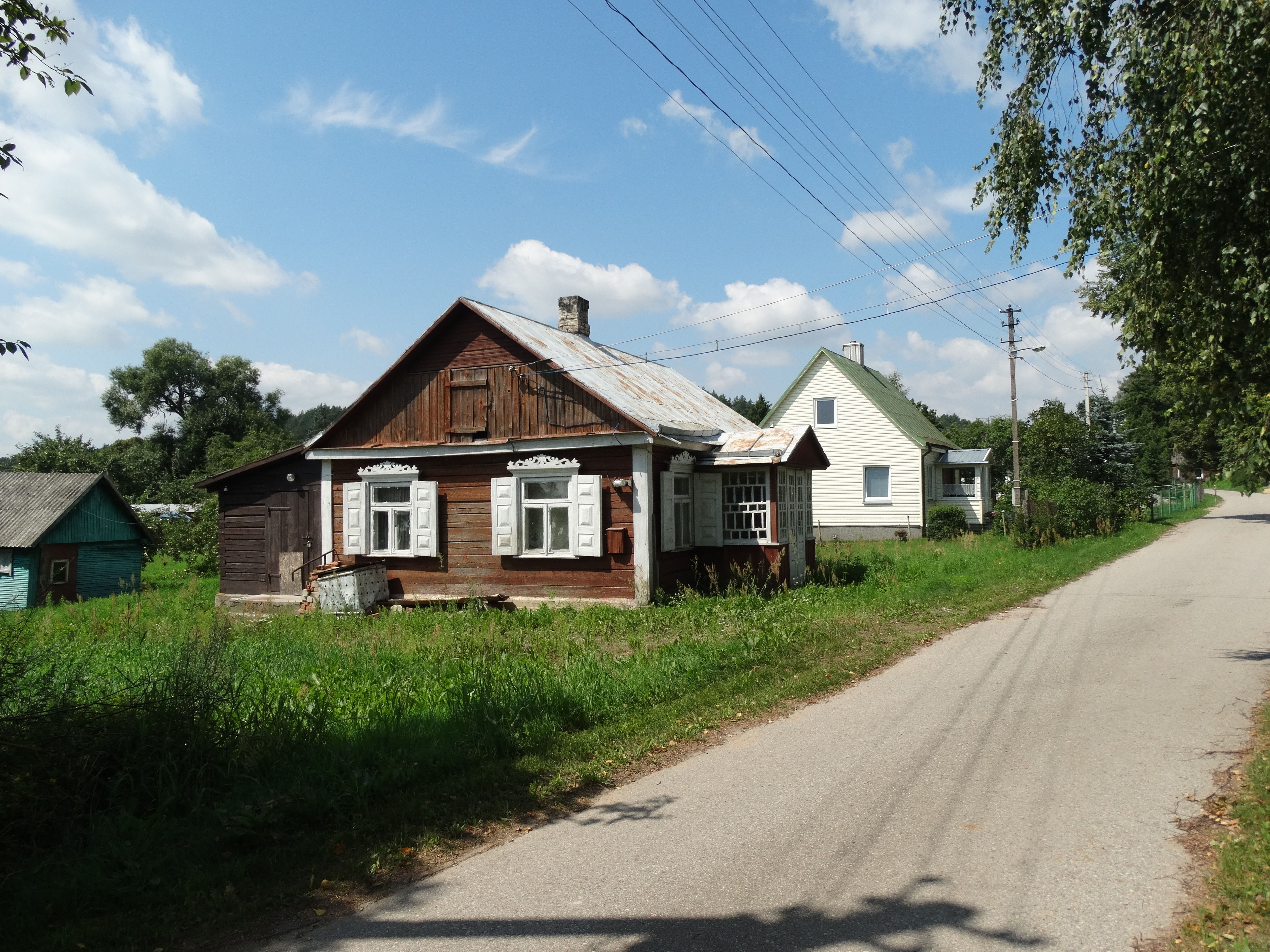 Šančiai, Kaunas district, Lithuania